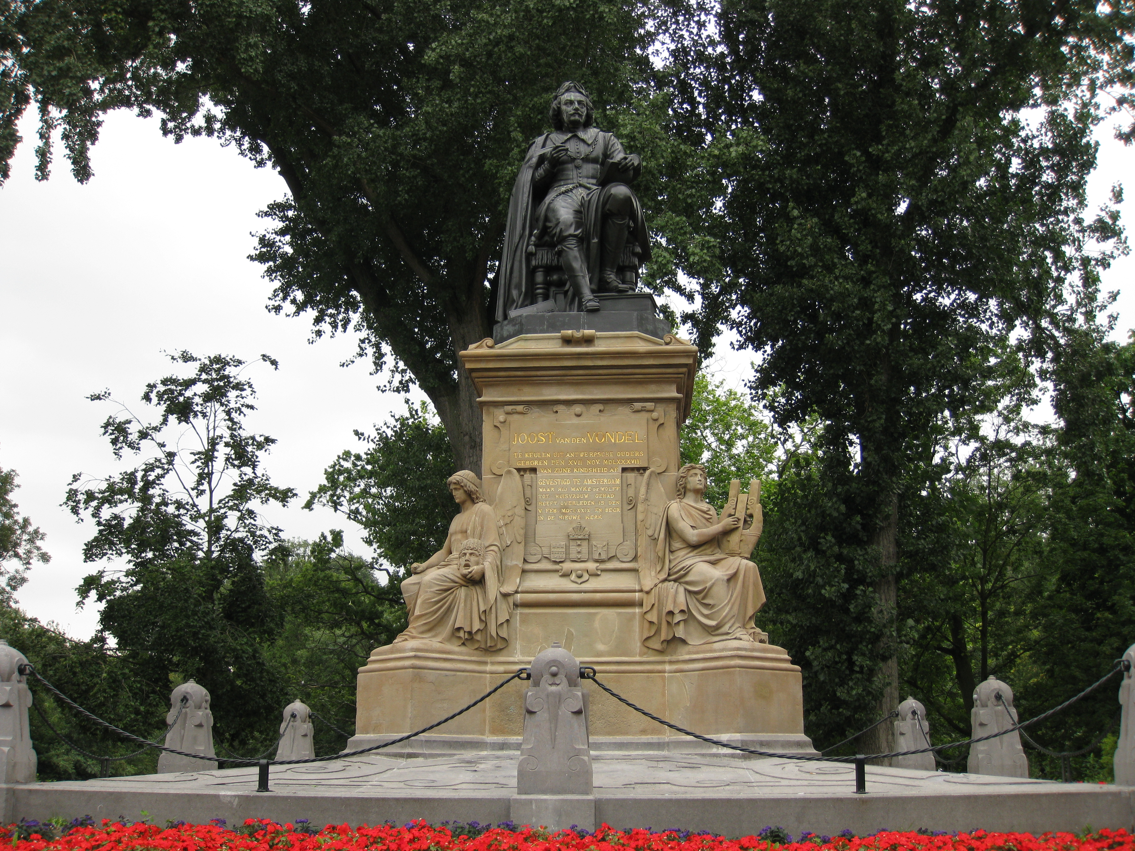 Joost van den Vondel monument in Vondelpark, Amsterdam